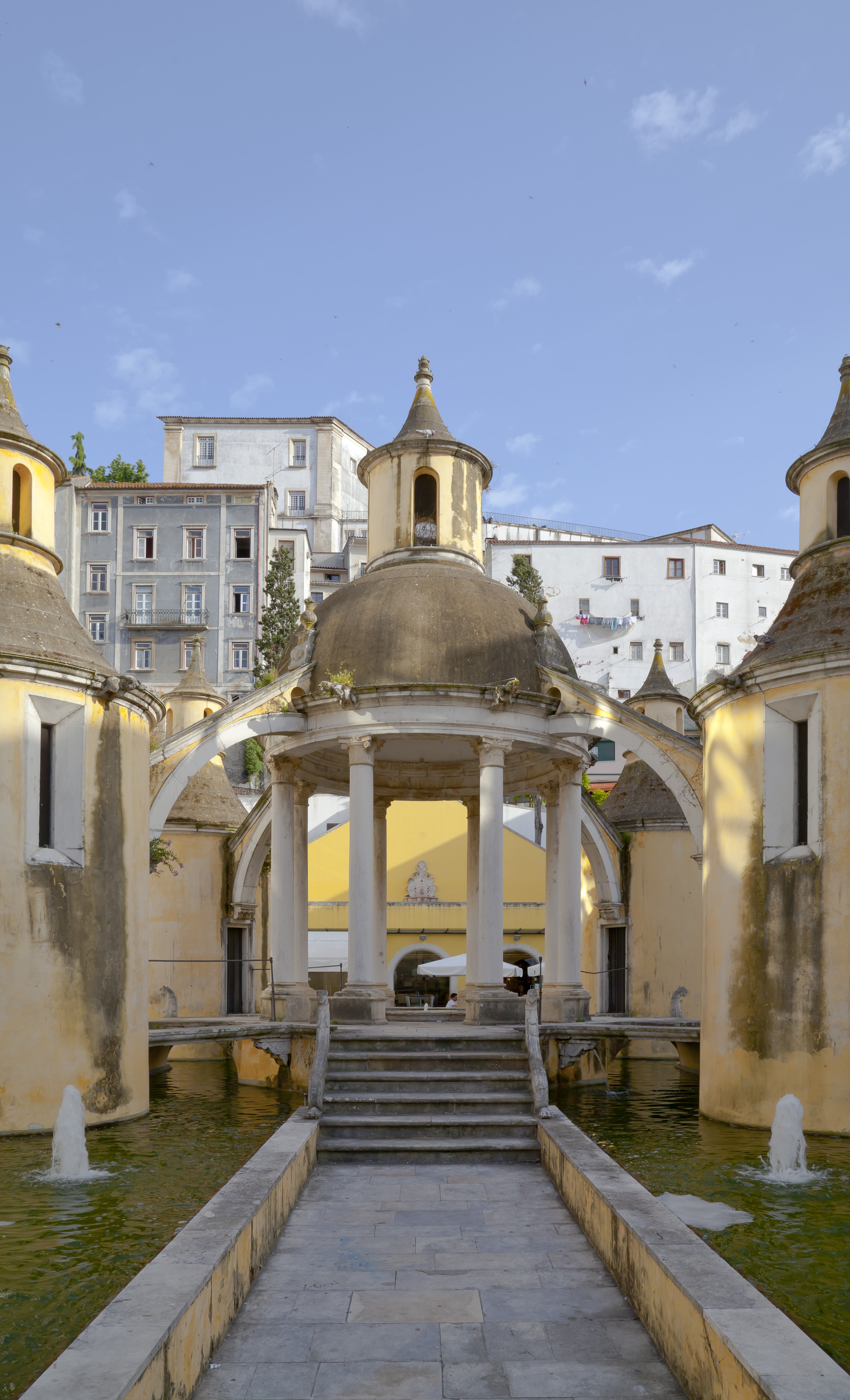 Garden of Manga, Coimbra, Portugal